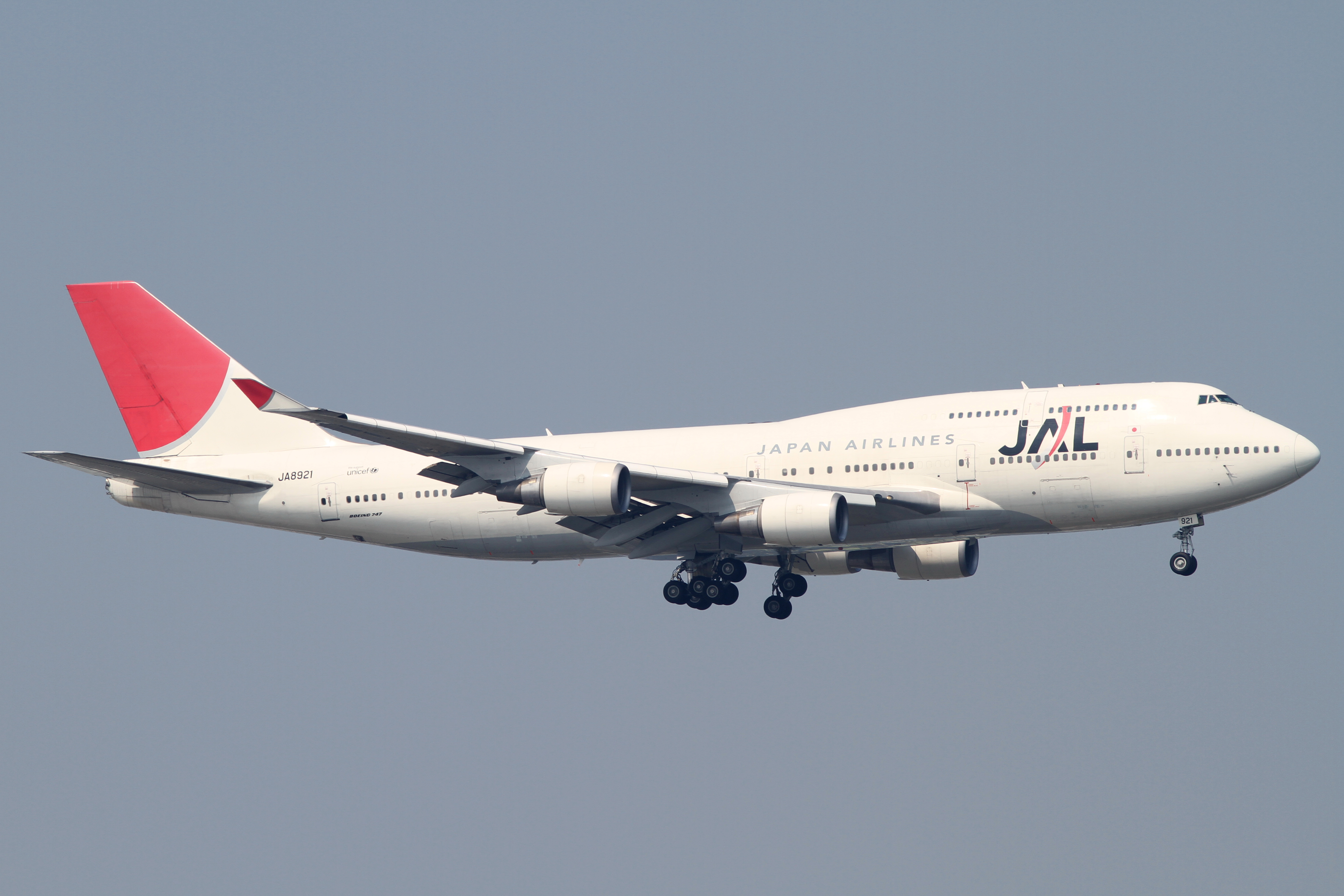 Tokyo International Airport, Boeing 747-446, c/n:27645, Japan Airlines